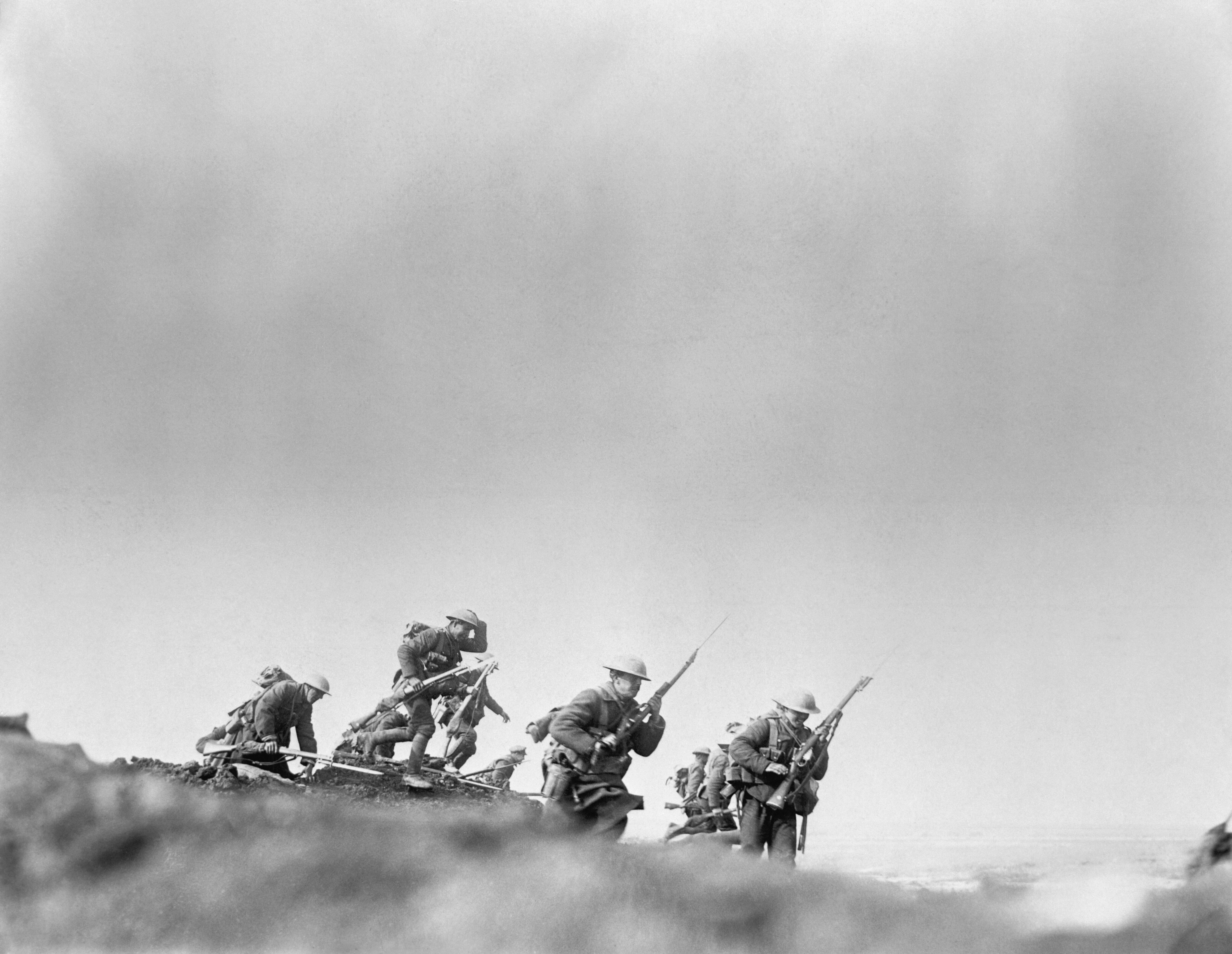 IWM caption : Canadian soldiers leaving their trench for a raid during the Battle of the Somme. It is known that this photograph was taken behind the lines and shows a scene specially set up for the photographer.